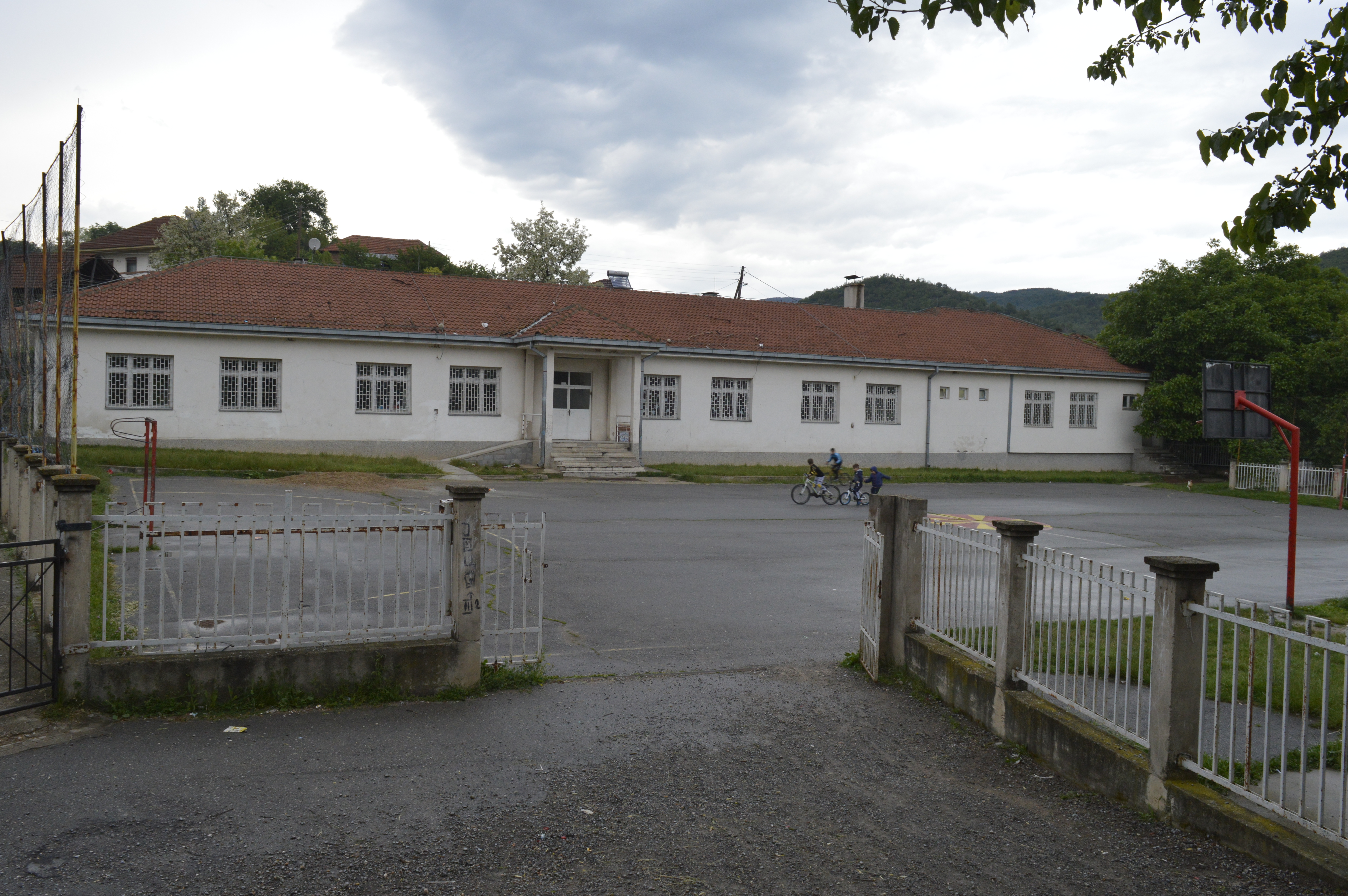 Primary school in the village Gabrovo